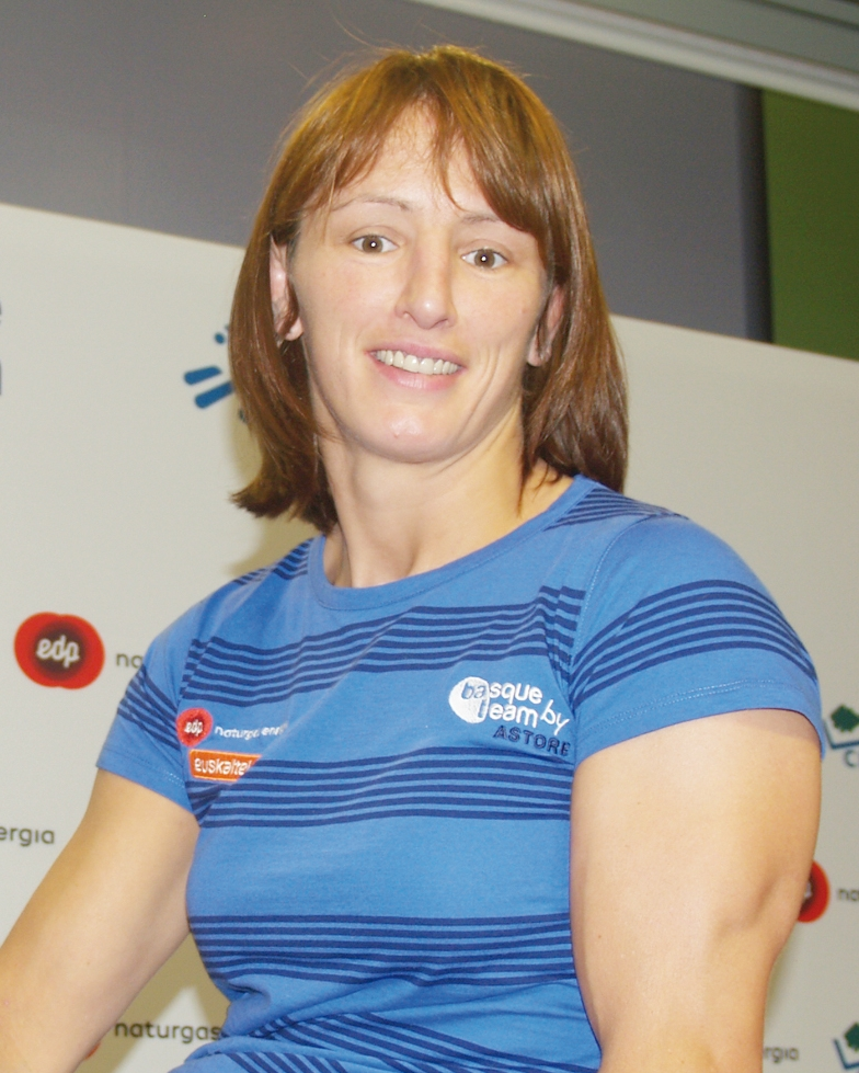 Maider Unda, Oletako (Araba) borrokalaria, 2016an.